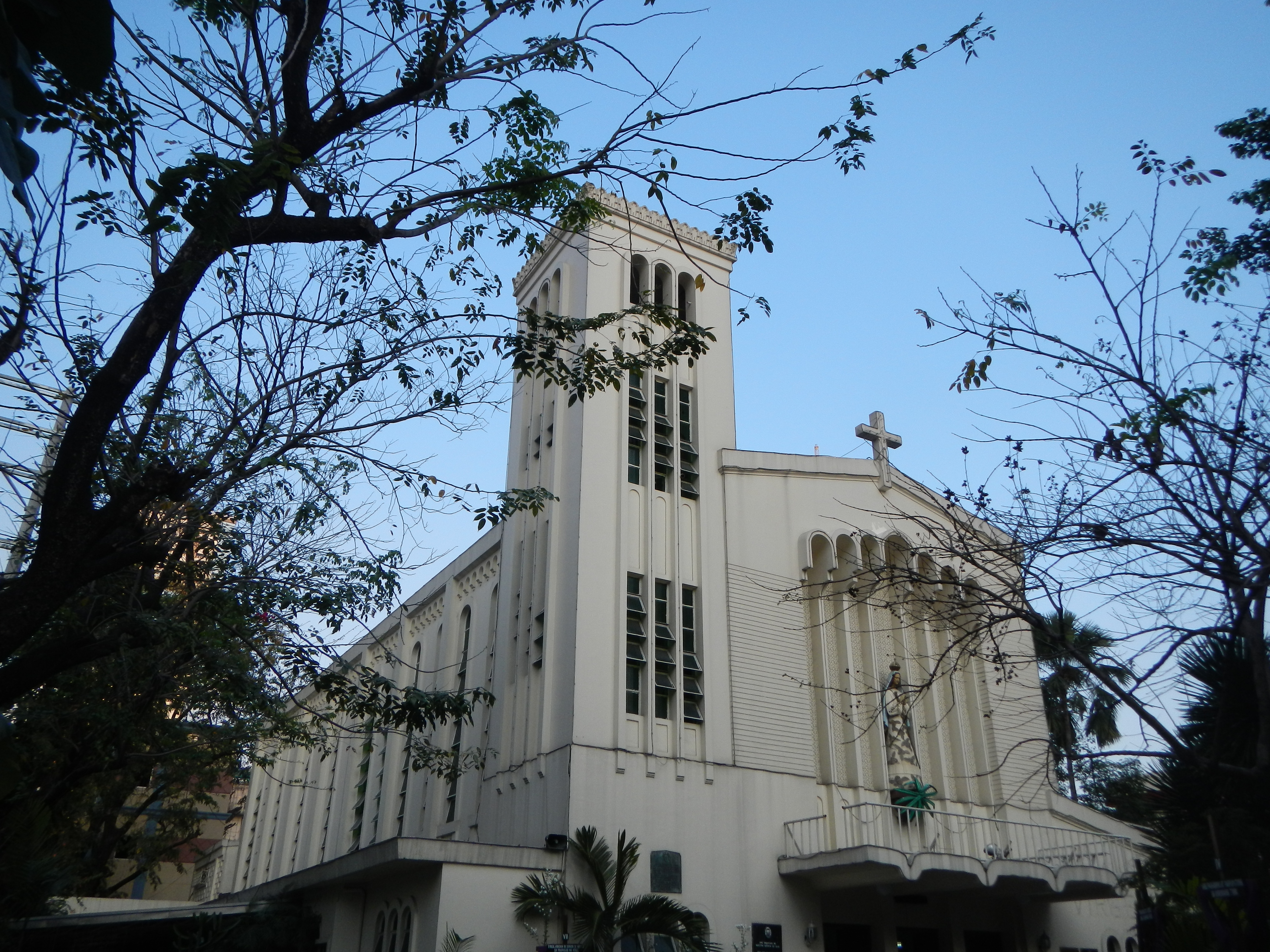 1521 Our Lady of Guidance[1] (Spanish: Nuestra Señora de Guia) is a 16th-century Roman Catholic image of the Blessed Virgin Mary venerated by Filipino Roman Catholics. Claiming to be the oldest Marian image in the Philippines, the wooden statue is believed to have been originally brought by Ferdinand Magellan (along with Santo Nino de Cebu). Locally venerated as patroness of navigators and travellers, the statue is enshrined in the Nuestra Señora de Guia Archdiocesan Parish in Ermita, Manila. Archdiocesan Shrine of Nuestra Señora de Guia Parish ( Ermita Church) - 441st Feast of Our Lady of Guidance - May 18, 2012[2]; the image of Our Lady was found on May 19, 1571, making it the oldest among all those venerated in the Philippines. In 1578, the king of Spain, in a royal decree, declared Our Lady of Guidance as the “sworn patroness” of Manila. [3]Coordinates: 14°34'43"N 120°58'48"E[4]Vicariate of Nuestra Señora De Guia[5] Nuestra Señora de Guia Parish and Archdiocesan Shrine Ermita, Manila belongs to the Roman Catholic Archdiocese of Manila[6][7][8] Archdiocesan Shrine Parish Priest:Fr. Sanny de Claro[9][10][11]Parochial Vicar: Father Artemio Fabros Attached Priest: Father Alexander Ramos Vicar Forane: Father John Leydon, MSSC Feastday: May 19 Titular: Our Lady of Guidance Immediate Preceding Pastor: Monsignor Geronimo F. Reyes, 1996 - 2004[12]